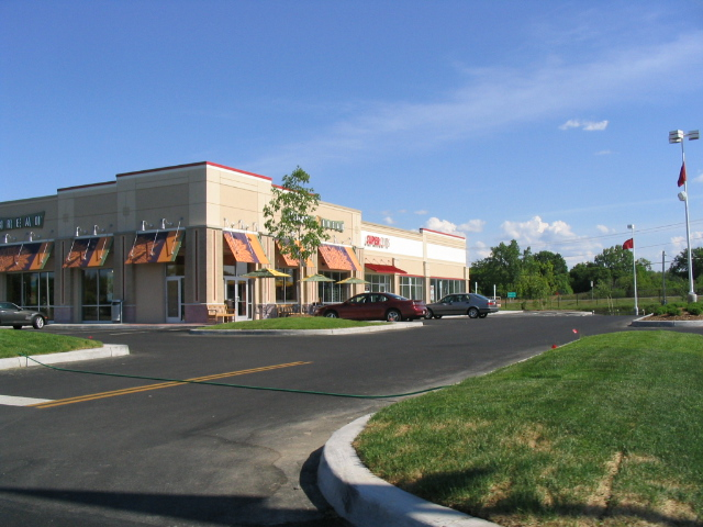 photo of The Marketplace plaza in Cicero, NY, taken by me on June 1, 2005